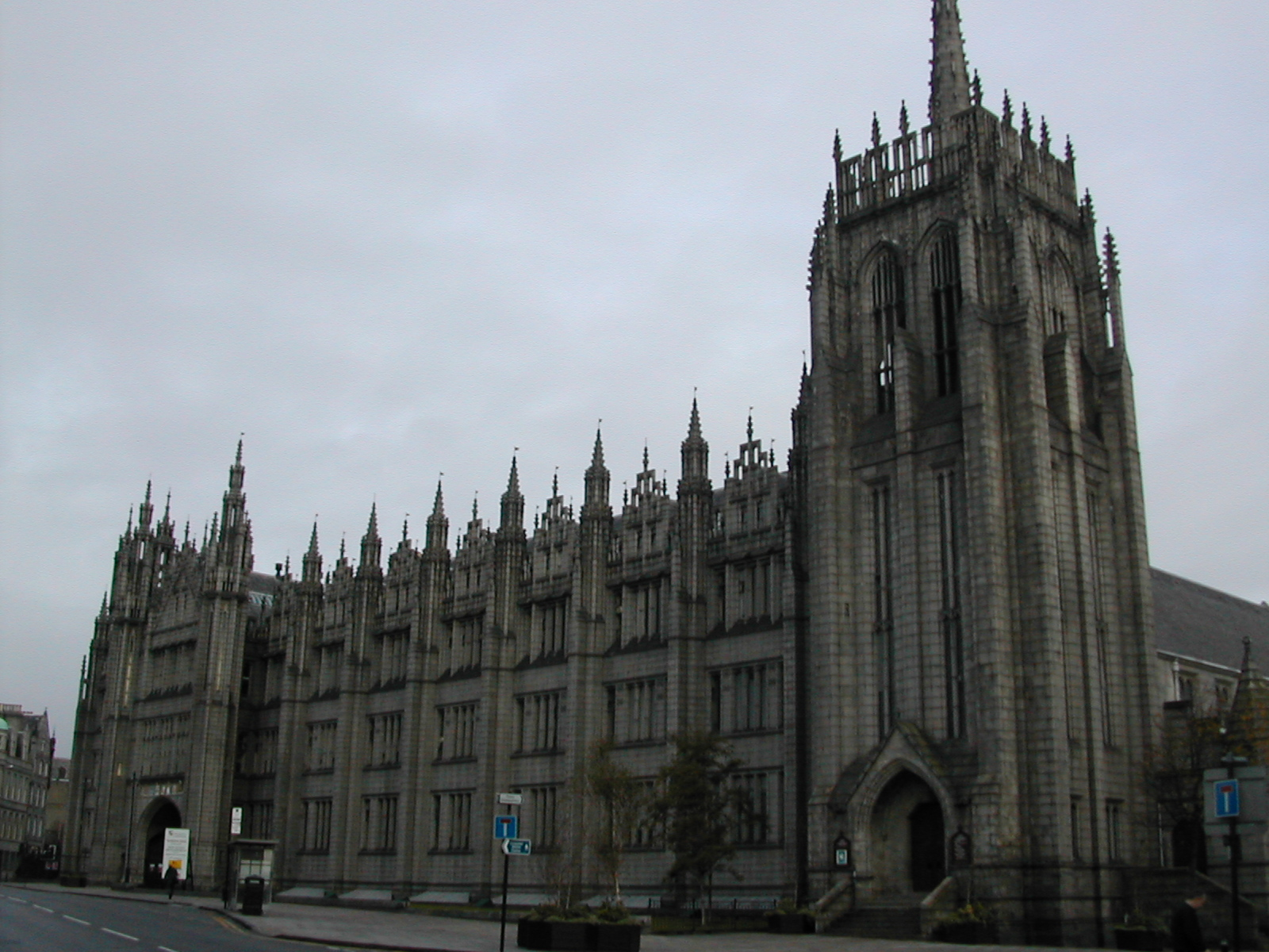 Nom du fichier : DSCN2480.JPG Taille du fichier : 727.8 Ko (745278 octets) Date : 2003/10/26 11:52:30 Taille de l'image : 1600 x 1200 pixels Résolution : 300 x 300 ppp Profondeur en bits : 8 bits/canal Attribut de protection : Désactivé Attribut Masqué : Désactivé ID de l'appareil : N/A Appareil : E775 Mode de qualité : FINE Mode de mesure : Multizones Mode d'exposition : Programme Auto Speed Light : Non Distance Focale : 5.8 mm Vitesse d'obturation : 1/107.9 seconde Ouverture : F7.9 Correction d'exposition : 0 IL Balance des blancs : Auto Objectif : Intégré Mode Synchro-Flash : Premier Rideau Différence d'exposition : N/A Programme Décalable : N/A Sensibilité : Auto Renforcement de la netteté : Auto Type d'image : Couleur Mode Couleur : N/A Saturation : N/A Contrôle Saturation : N/A Compensation des tons : Normal Latitude (GPS) : N/A Longitude (GPS) : N/A Altitude (GPS) : N/A